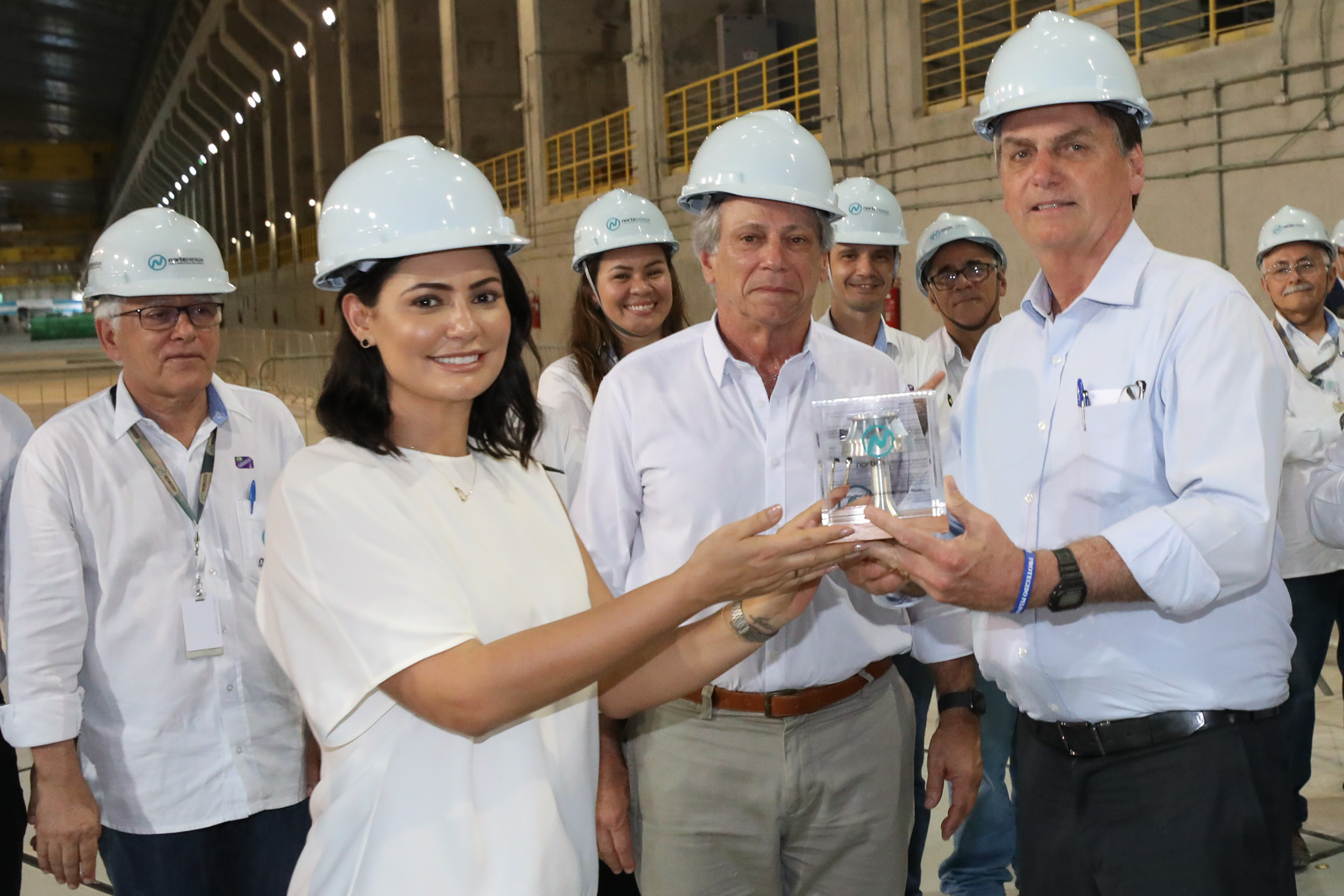 (Vitória do Xingu - PA, 27/11/2019) Presidente da República, Jair Bolsonaro e a Primeira Dama, Sra. Michelle Bolsonaro, durante cerimônia de inauguração da Usina Hidroelétrica Belo Monte. Foto: Marcos Corrêa/PR